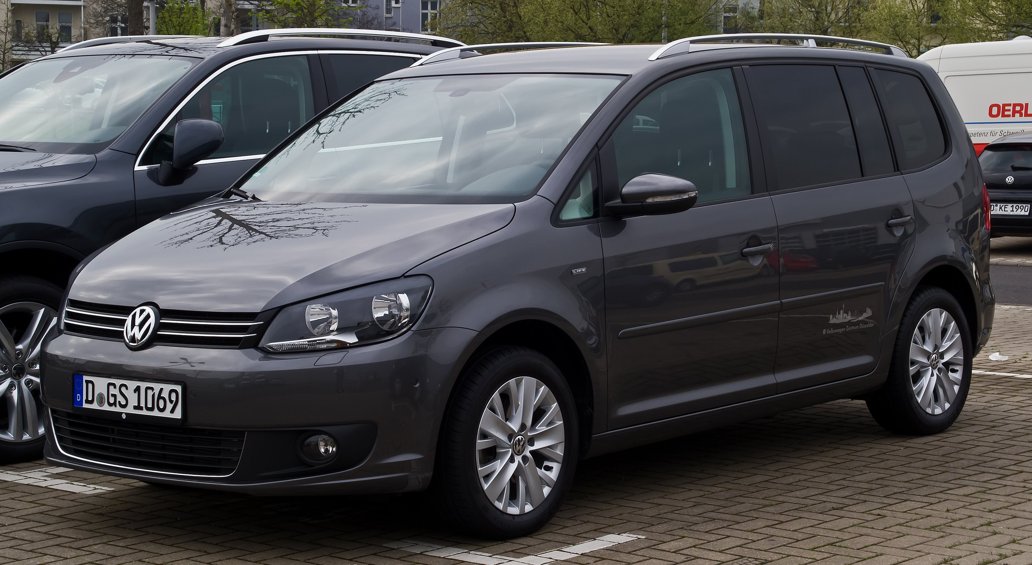 VW Touran Life (2. Facelift)